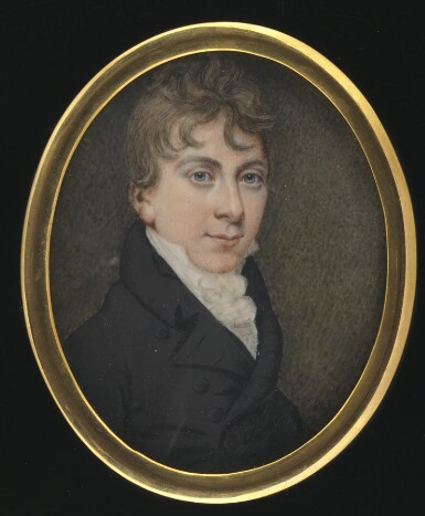 Thomas Love Peacock (watercolour on ivory)